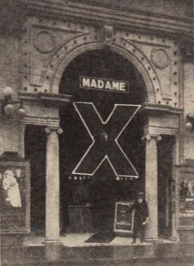 The Granby Theater in Norfolk, Virginia, showing the American drama film Madame X (1920), on page 53 of the November 27, 1920 Exhibitors Herald. Goldwyn Pictures assisted in setting up the display, which featured a rotating red X.